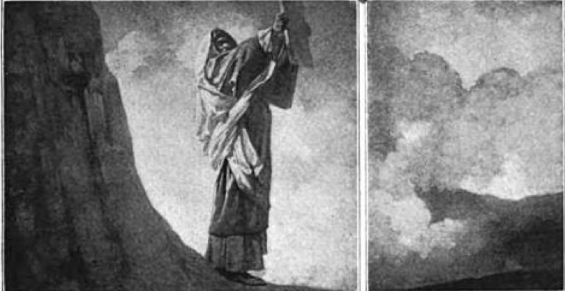 Part of William B. Van Ingen's frieze "The Divine Law", for a courtroom in the Chicago Federal Building.